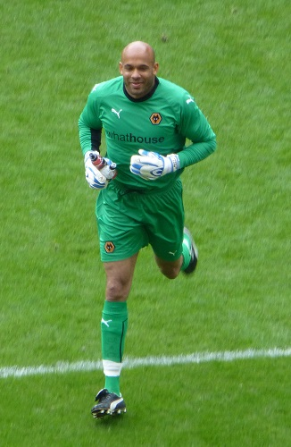 Murray during the Jody Craddock Testimonial (05.05.2014)